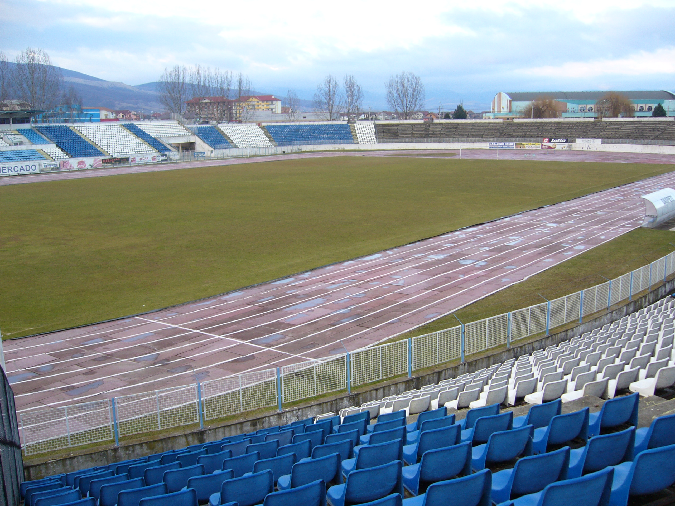 Picture of Victoria Cetate Stadium, Alba Iulia, Romania, taken from the second stand.